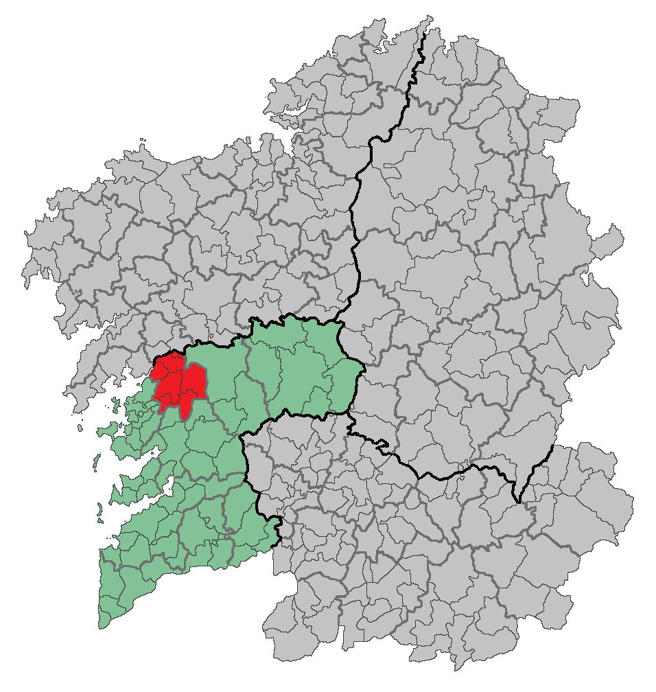 Region of Galicia (Spain)Based in: Image:Location of Betanzos.png Source: Designed by Leoplus. Original picture, designed by Caiser over a work made by Alyssalover.